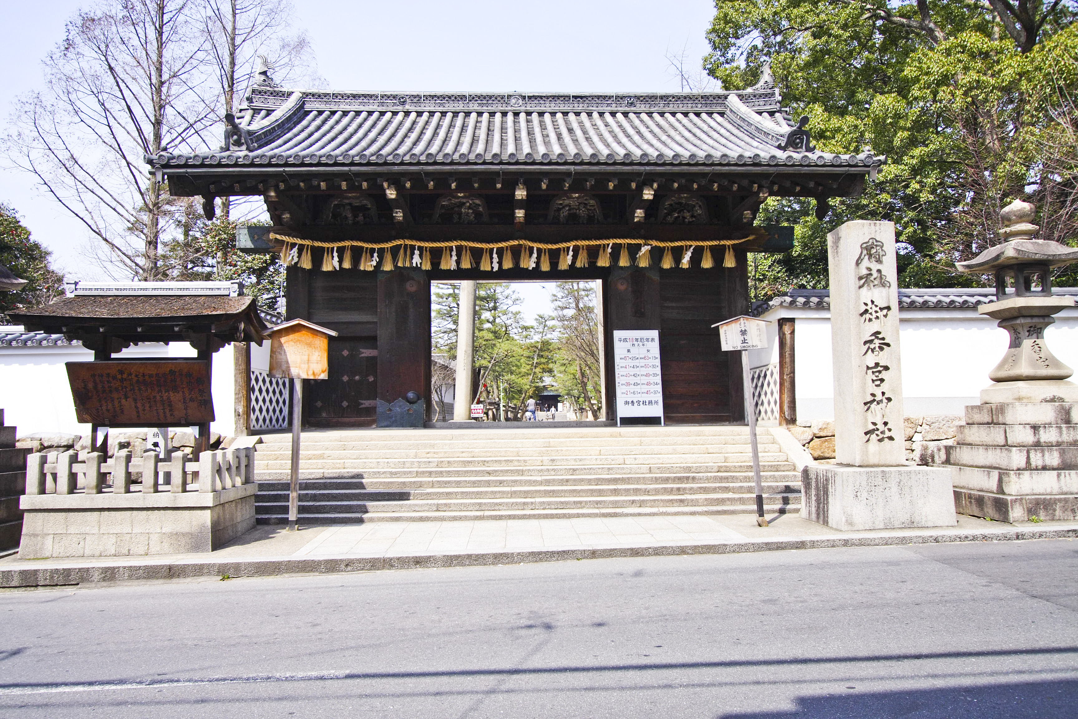 御香宮神社 京都市伏見区/Gokōgū shrine in Kyoto, Japan